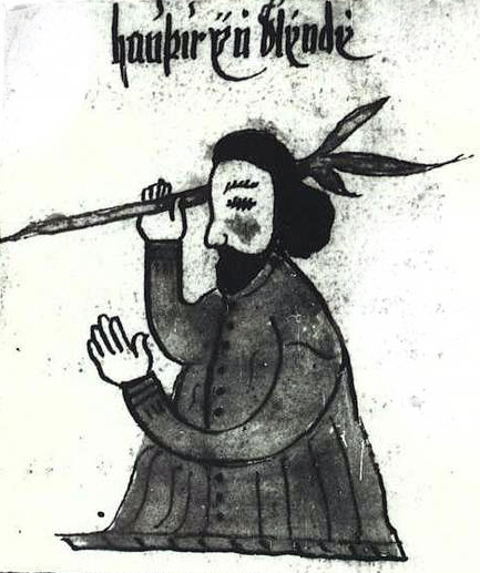 An illustration of the Norse god Höðr, from an Icelandic 17th century manuscript. A scan of a black and white photography.